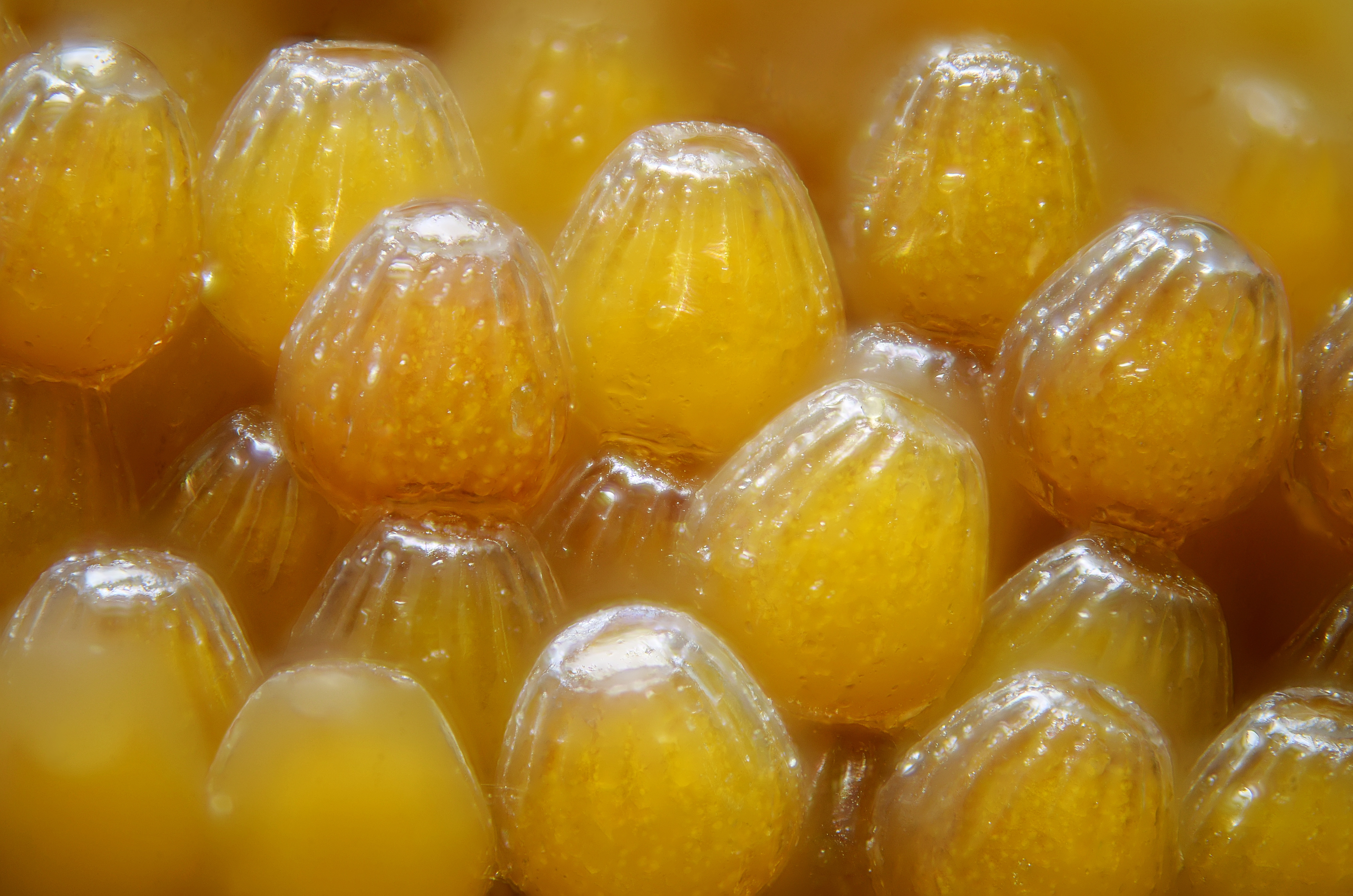 Marsh Fritillary butterfly (Euphydryas aurinia) eggs. Technical settings : - Focus stack of 35 images - microscope objective (Nikon achromatic 10x 160/0.25) on extention tubes (68mm)